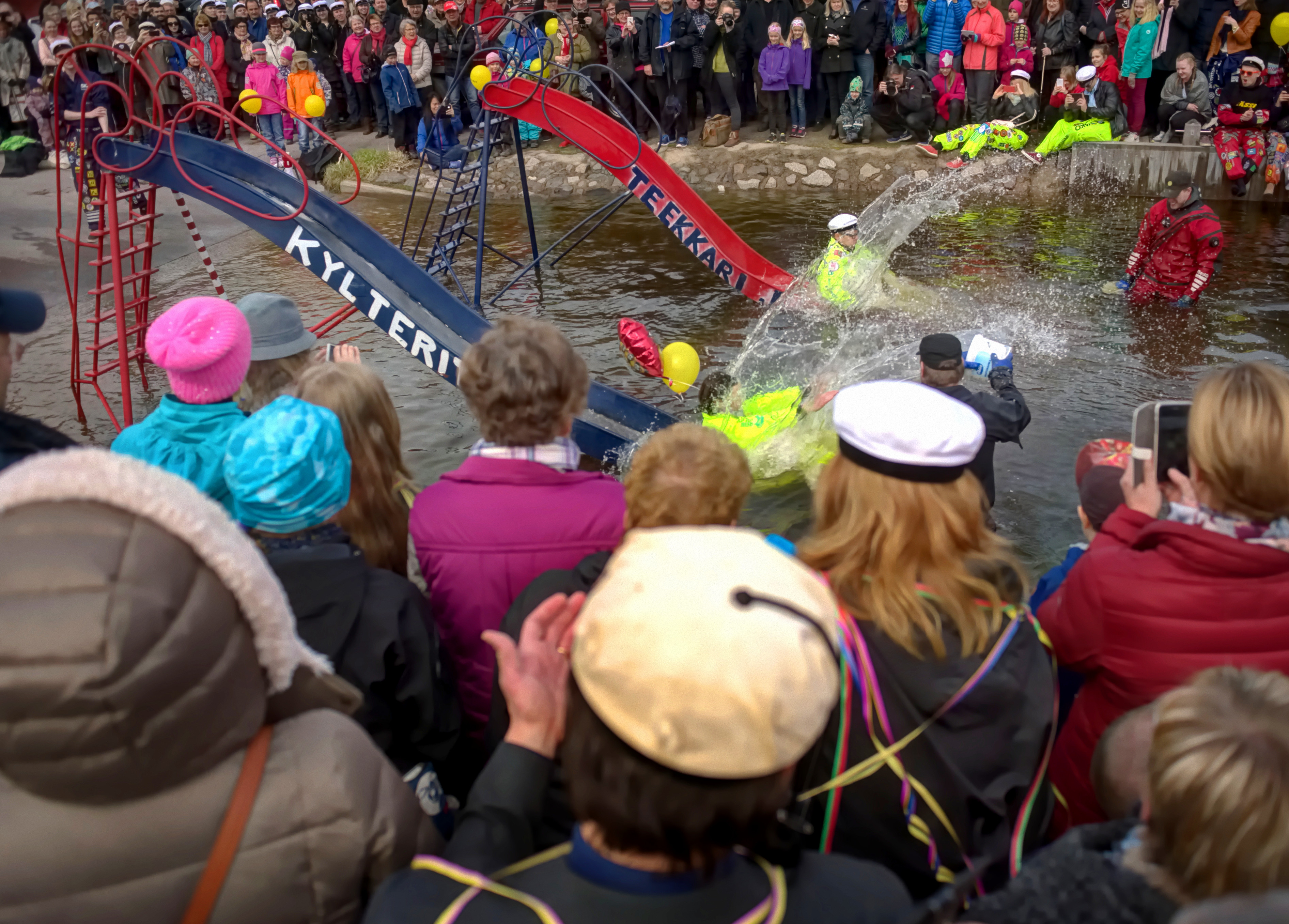 The new principal Juha-Matti Saksa of Lappeenranta University of Technology, getting his dew on April 30st 2016